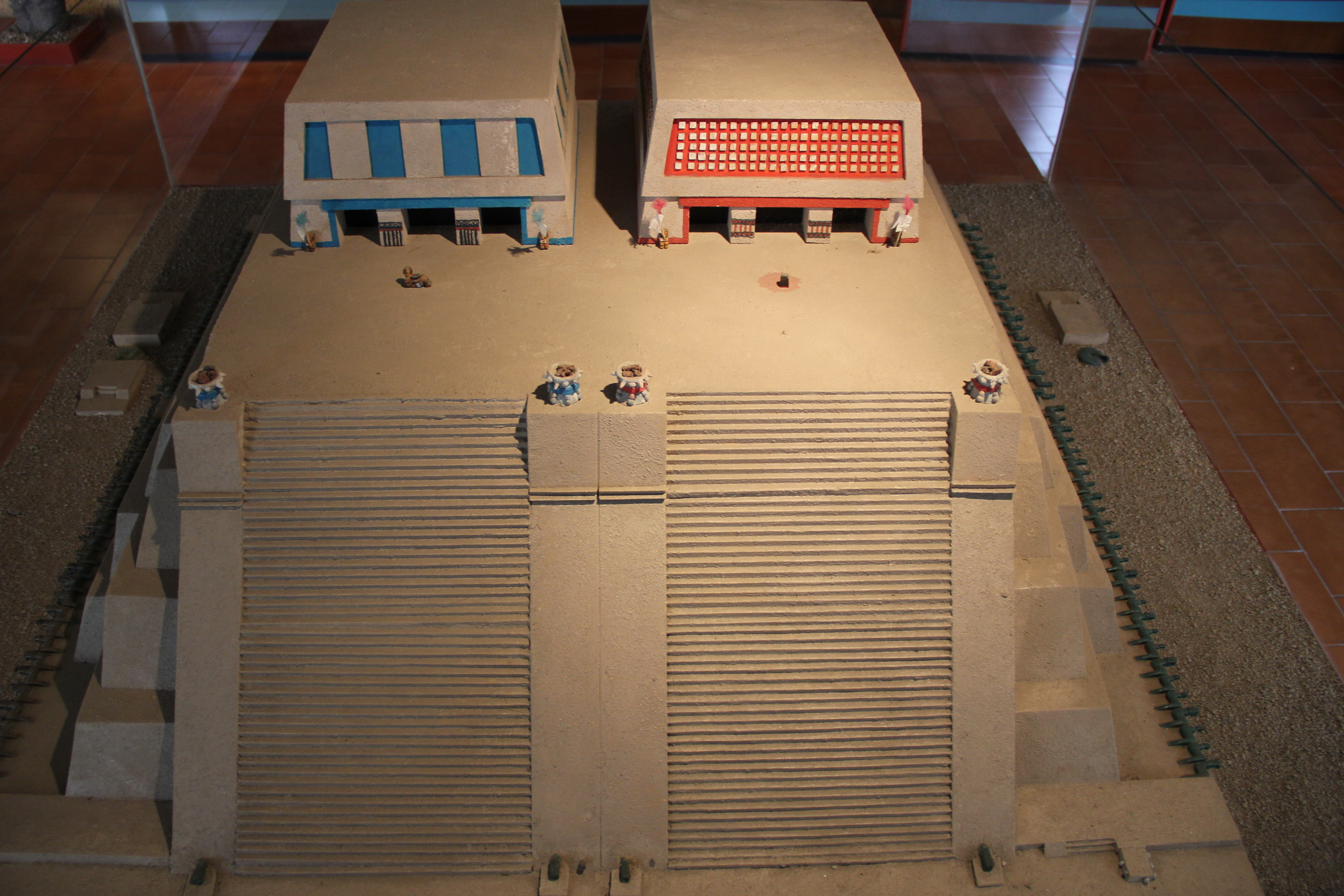 Museum Aztec Mexico Tlalnepantla Prehispanic Archaeology Pyramid Tenayuca